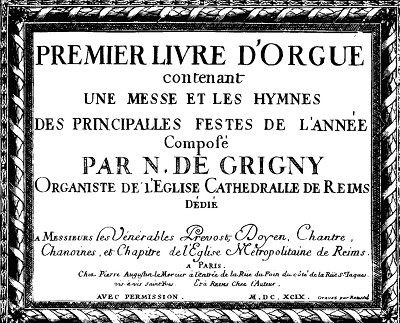 Title page of the first Livre d'Orgue (1699) of Nicolas de Grigny